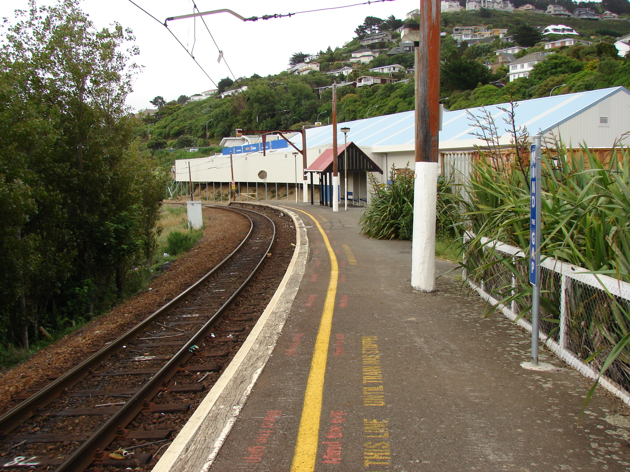 Crofton Downs railway station looking south in the direction of Wellington. Photographed by Matthew25187 on 2007-12-17.